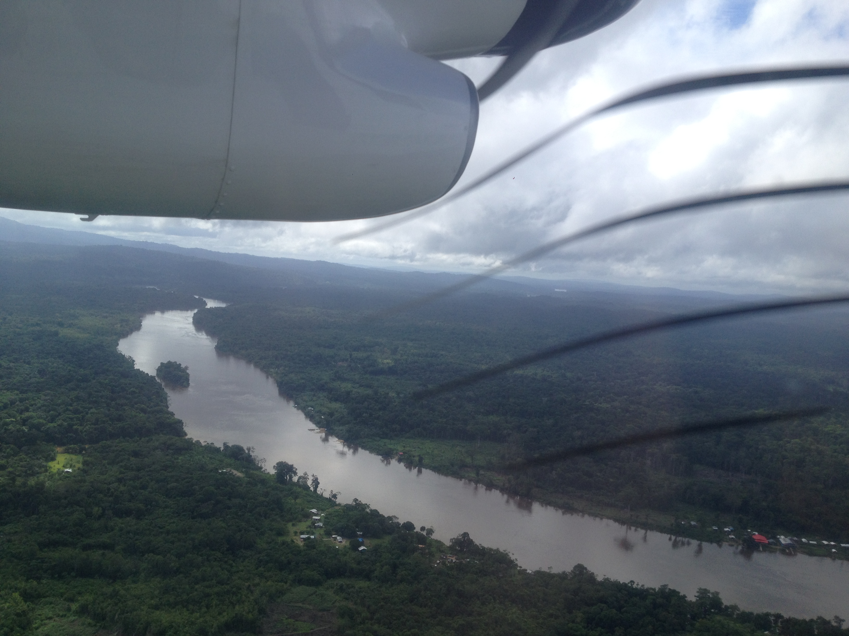 Lawa River near Maripasoula (French Guiana). Suriname lies in the upper part of the picture. French Guiana lies in the lower part.